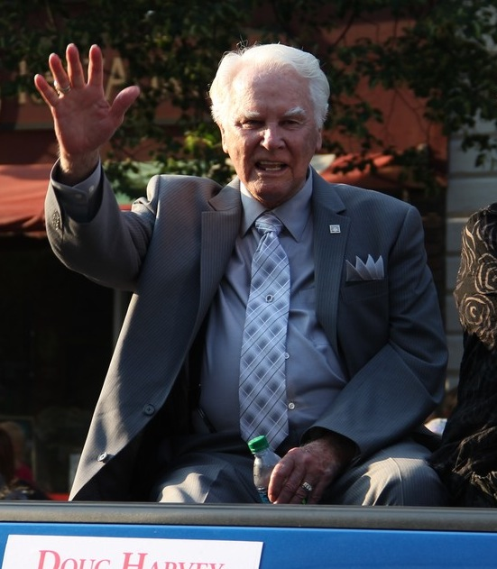 Former MLB umpire Doug Harvey at the 2010 Hall of Fame induction parade.